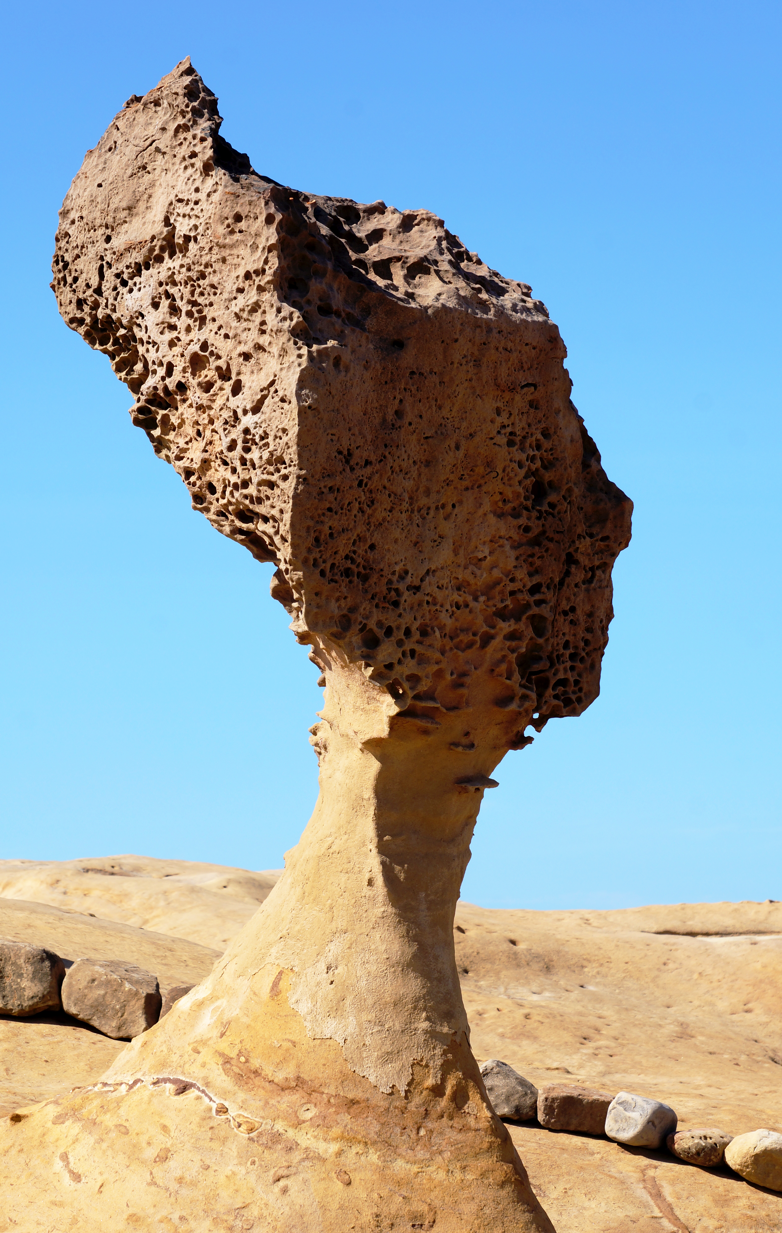 Queens Head Rock, one of the many sea and wind eroded natural sculptures at the Yeliu geopark on Taiwan's north coast